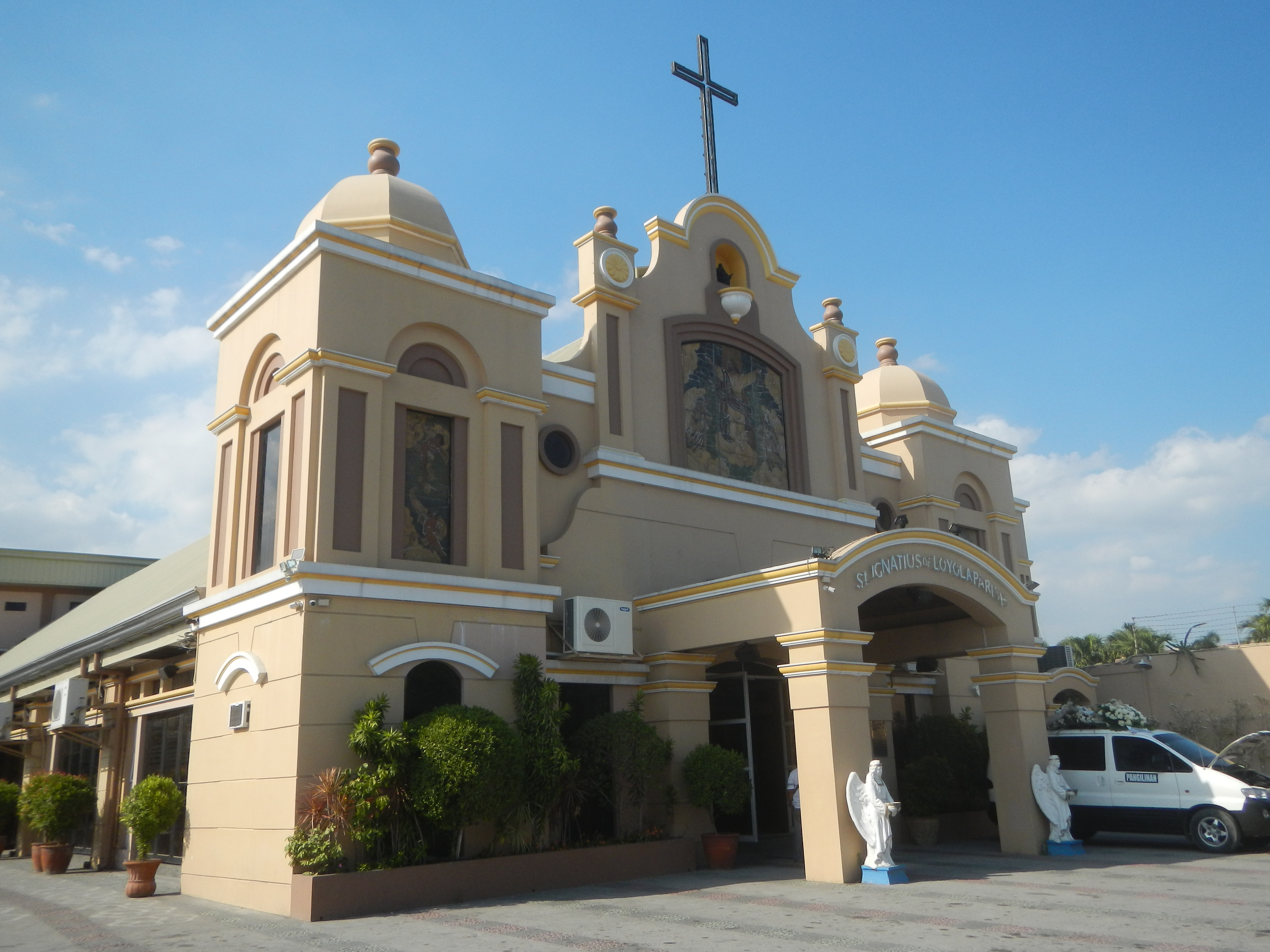 Saint Ignatius of Loyola Parish Church (Porac, Pampanga) - 2019 Saint Ignatius of Loyola Parish Church 3—St. Ignatius of Loyola Parish (F-1943) 2008 Pampanga Titular: St. Ignatius of Loyola, July 31 Vicariate of Sacred Heart Angeles–Porac Road Angeles-Porac Road (Babo Sacan & Cangatba - Santa Cruz, Porac, Pampanga) Barangay Manibaug Libutad 15°6'18"N 120°32'35"E Porac, Pampanga (Note: Judge Florentino Floro, the owner, to repeat, Donor Florentino Floro of all these photos hereby donate gratuitously, freely and unconditionally all these photos to and for Wikimedia Commons, exclusively, for public use of the public domain, and again without any condition whatsoever).